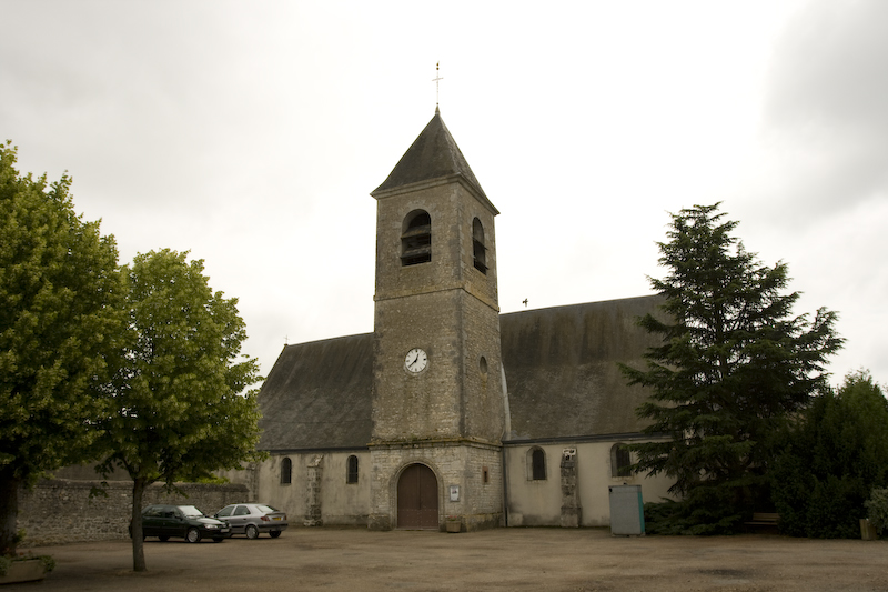 Saint Felix Church in Champigny en Beauce, France (12-13th Century)